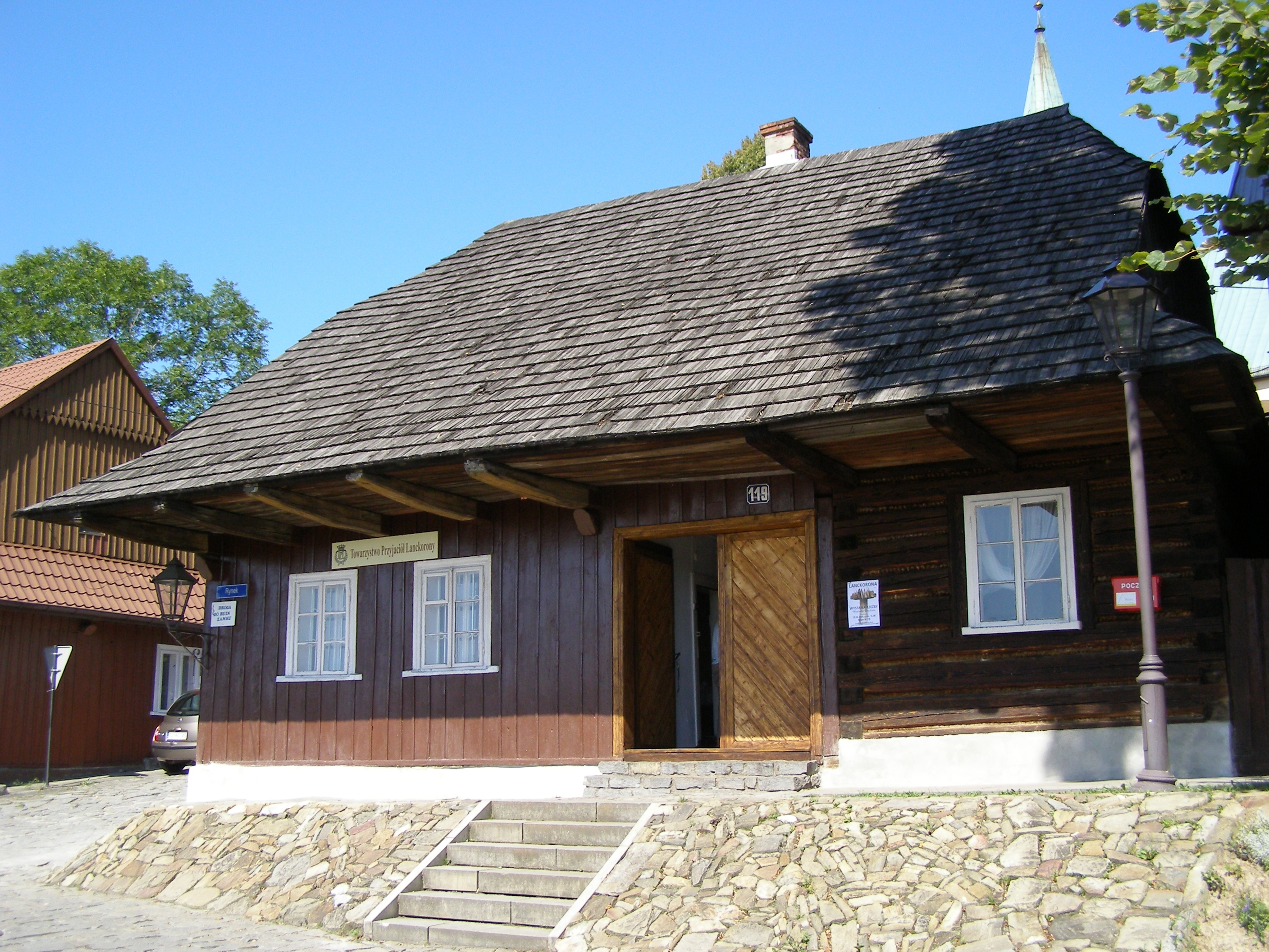 Lanckorona - house No. 119 in the Market Square